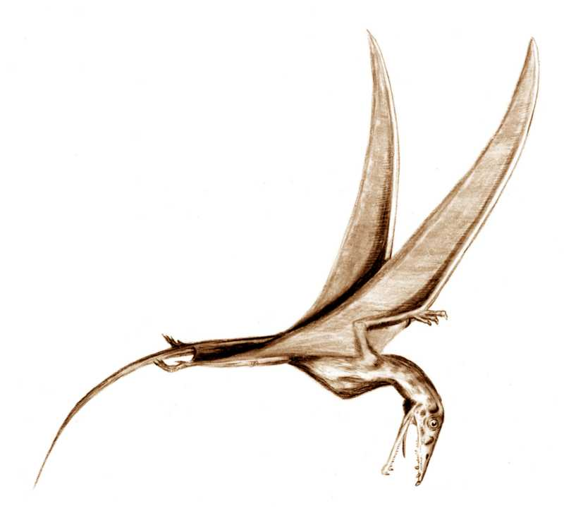 Eudimorphodon, pencil drawing based on skeletal by Wild, 1984 Author:User:ArthurWeasley